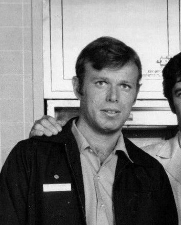 Photo of the cast of the television program Emergency!. From left: Kevin Tighe, Robert Fuller, Julie London, Bobby Troup and Randolph Mantooth.